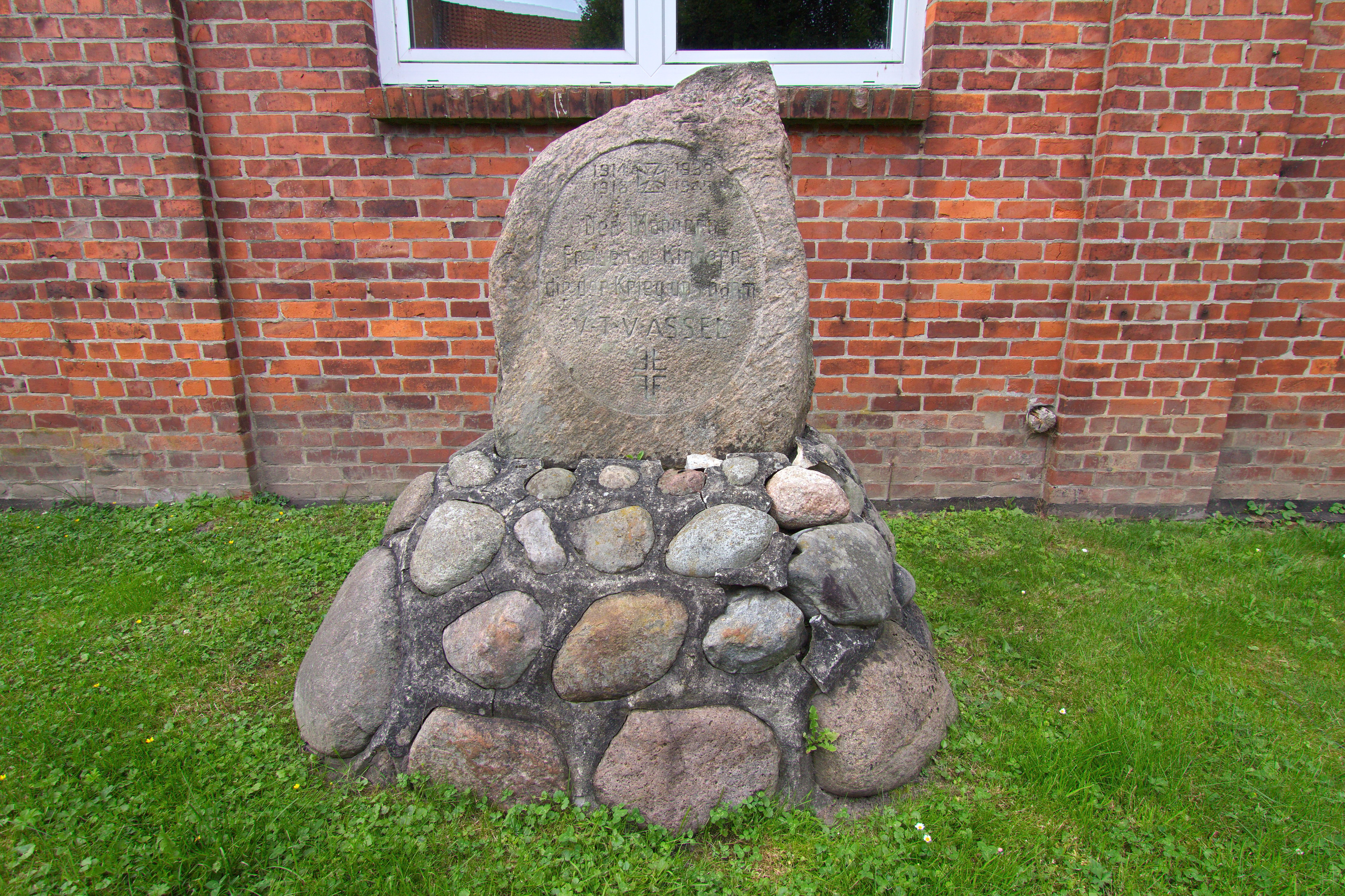 Kriegerdenkmal vor der St. Martin-Kirche zu Assel in Assel (Drochtersen), Niedersachsen, Deutschland